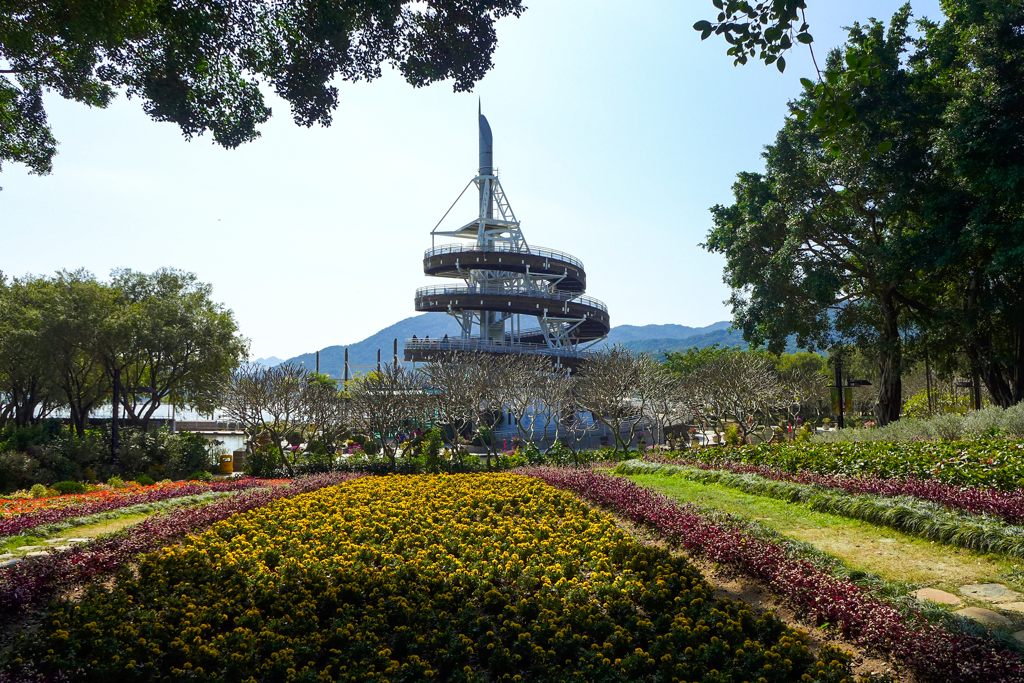 Tai Po Waterfront Park Spiral lookout tower